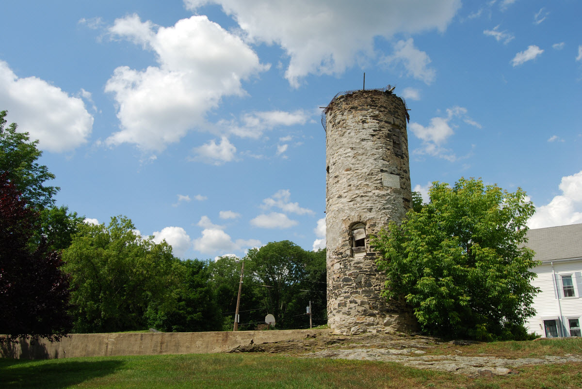 Udor Tower, part of Millville Historic District, Millville, Massachusetts